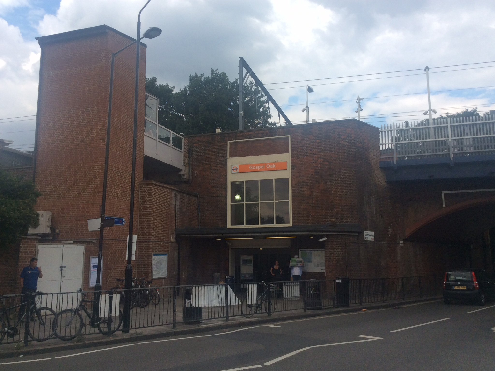 Gospel Oak station entrance in July 2017